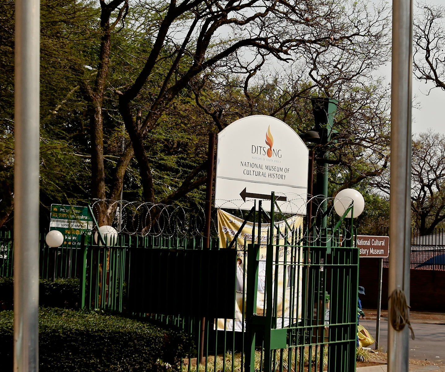 National Cultural History Museum, Boom Street, Pretoria This media shows a South African Protected Site with SAHRA file reference 9/2/258/0061.